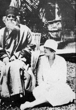 Tagore and Ocampo in the grounds of Villa Ocampo, the country house of Victoria's parents. Victoria is sitting on the grass.